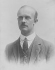 Portrait of Raymond Sherrard